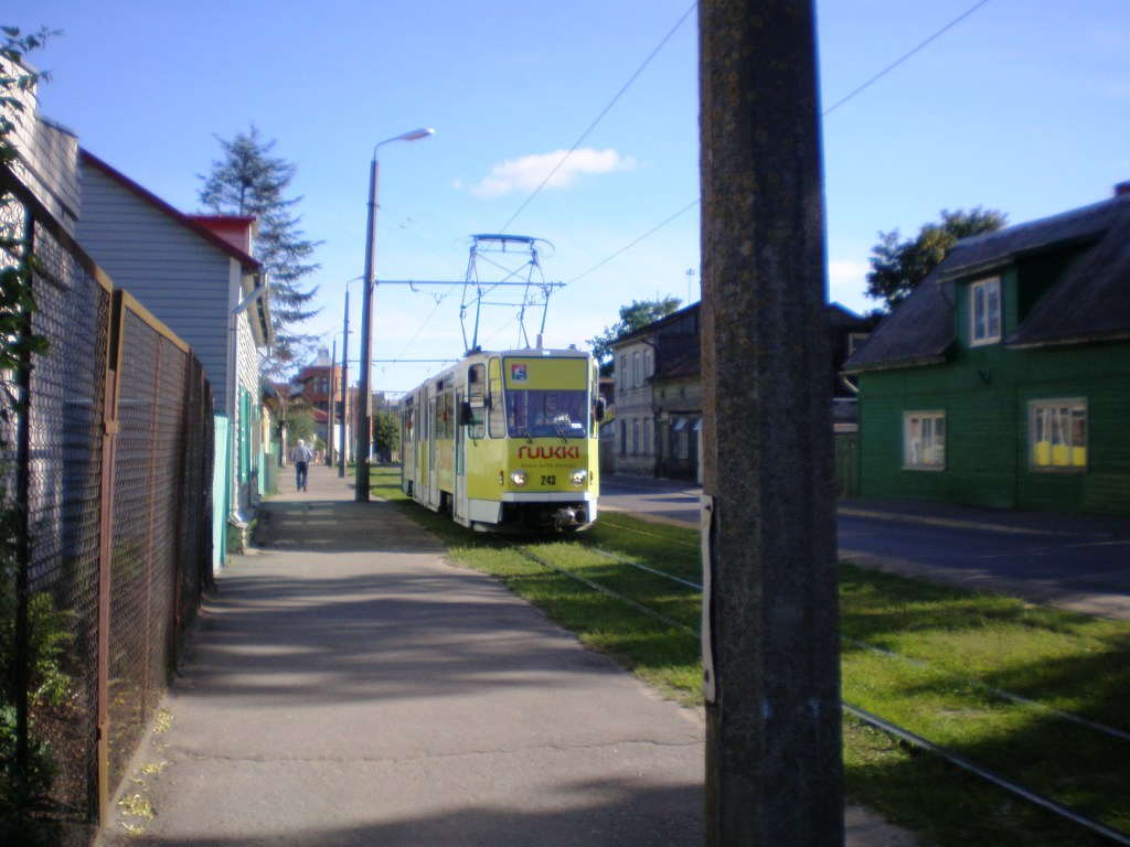 Tram in Liepāja, Latvia